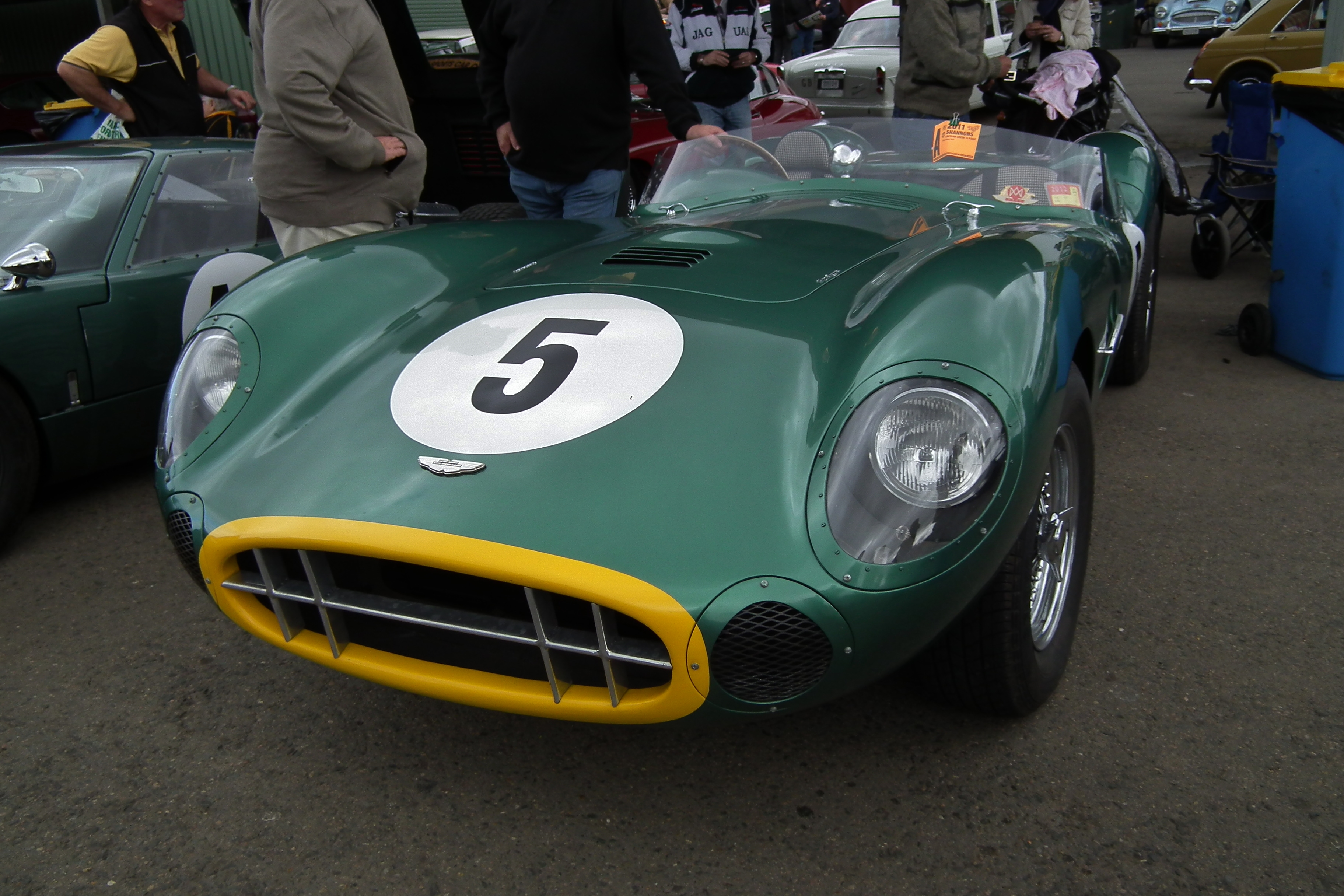 1967 Aston Martin DB6 - DBR2 roadster replica. Taken at Shannon's Eastern Creek Classic 2011, held at Eastern Creek Raceway Sydney.